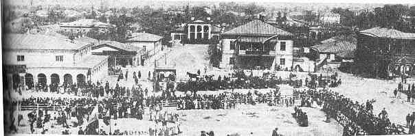 Market square (Luhansk)